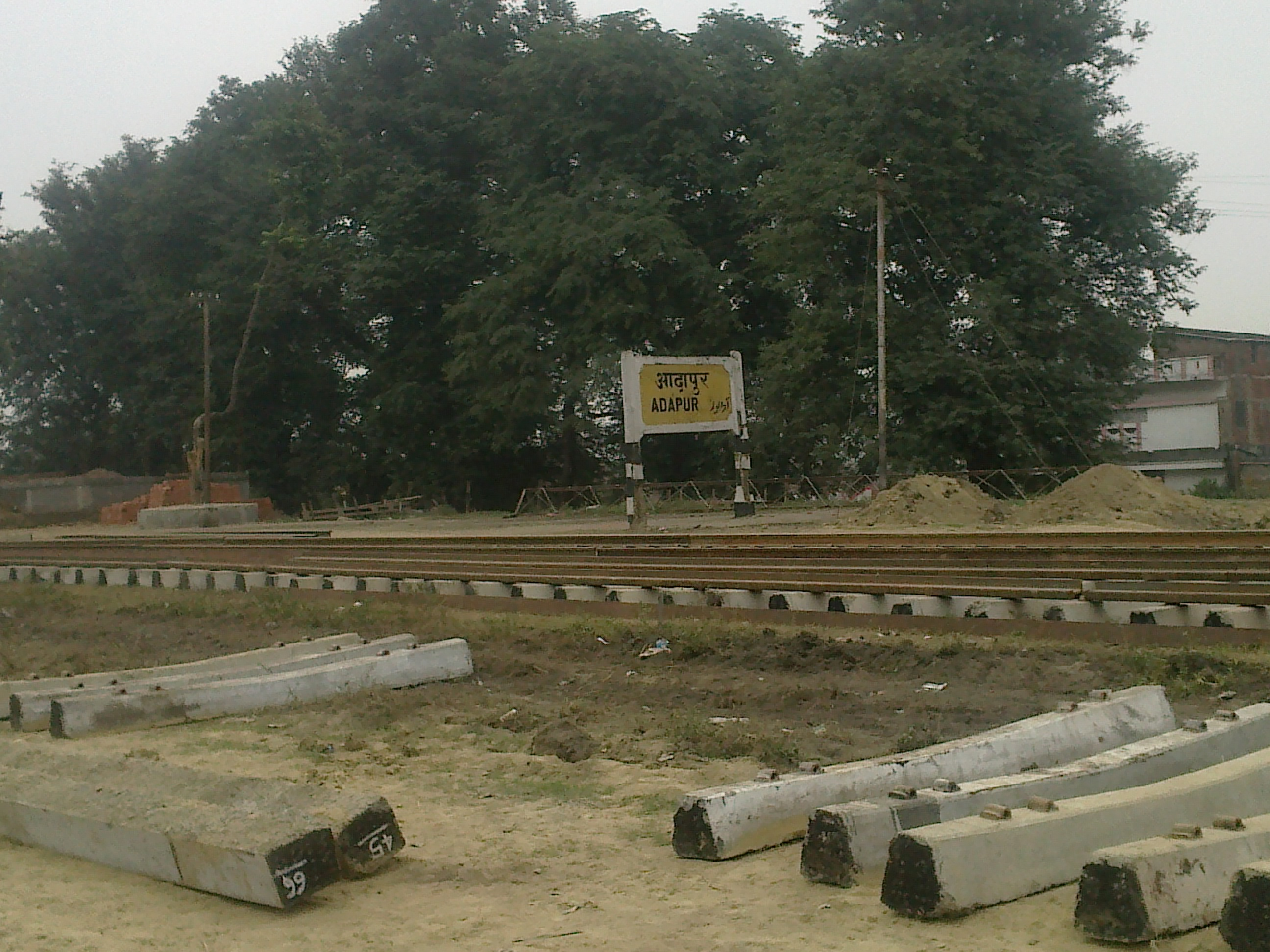 Adapur station